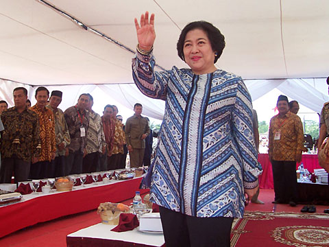 Megawati Sukarnoputri